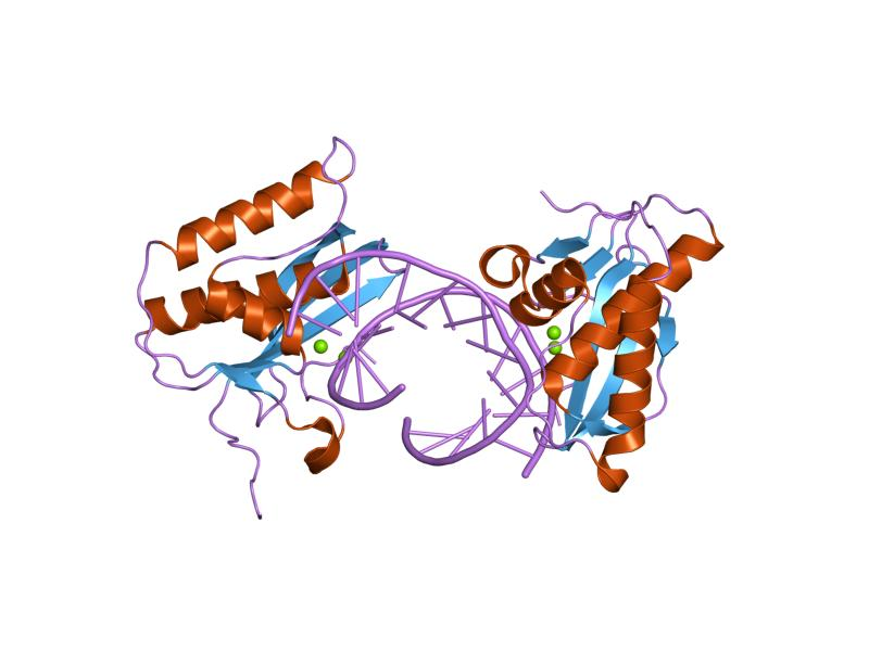 Cartoon representation of the molecular structure of protein registered with 1zbi code.